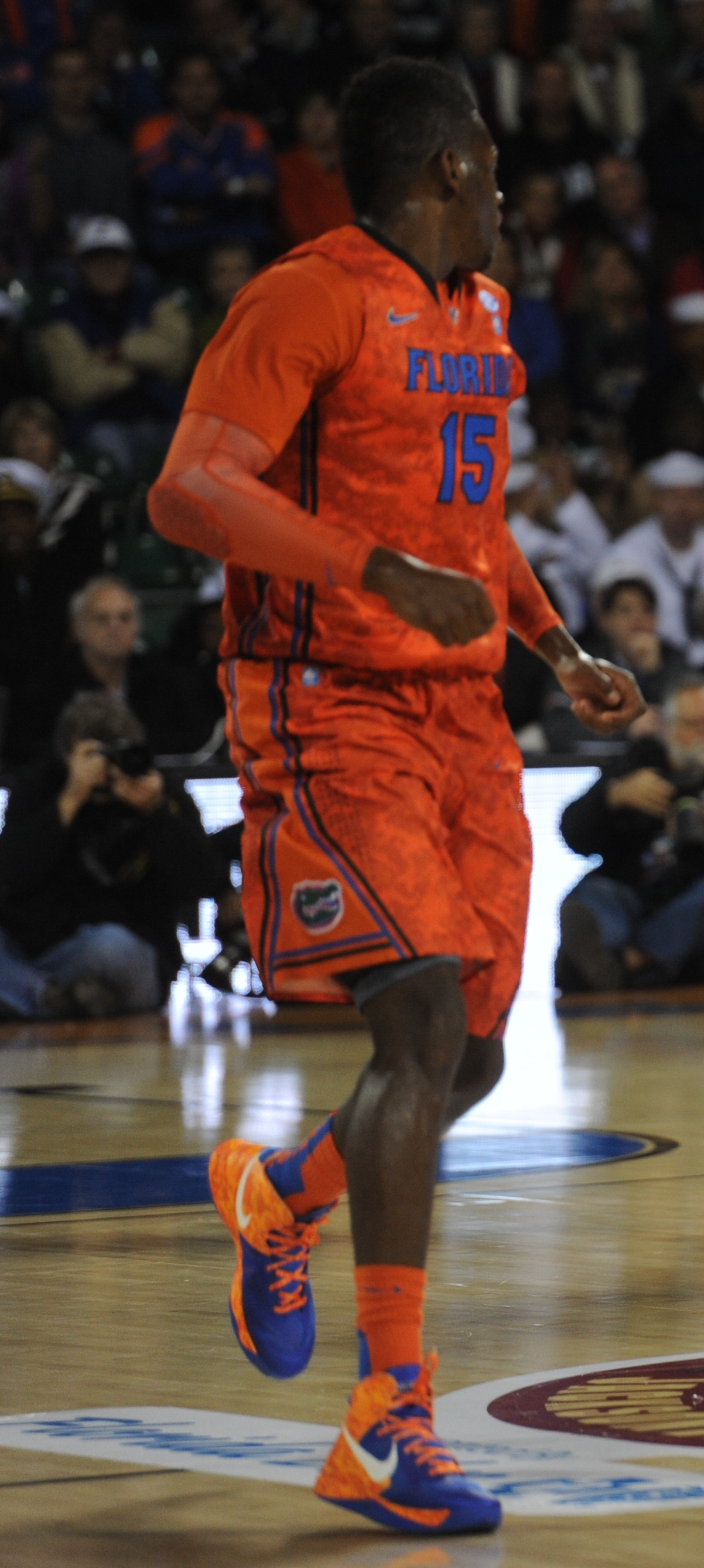 MAYPORT, Fla. (Nov. 9, 2012) The University of Florida Gators and the Georgetown University Hoyas play basketball on the flight deck of the multipurpose amphibious assault ship USS Bataan (LHD 5). Bataan hosted the event put on by the city of Jacksonville, Florida. The game however was canceled after the first half, due to an excess of condensation making the court slippery. U.S. Navy photo by Mass Communication Specialist 2nd Class Gary A. Prill/Released) 121109-N-RB564-005